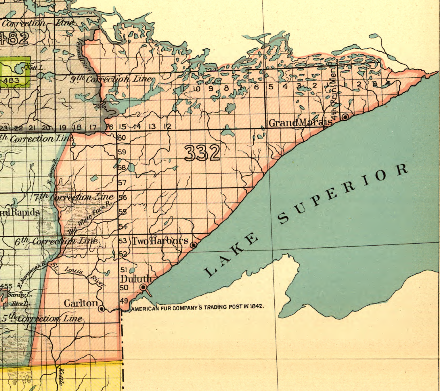 Details from 18th Annual Report, Plate 104—Minnesota, 1: Map of Treaty of La Pointe#1854 Treaty of La Pointe signed on September 30, 1854 at La Pointe, Wisconsin (designated 332 on the map).